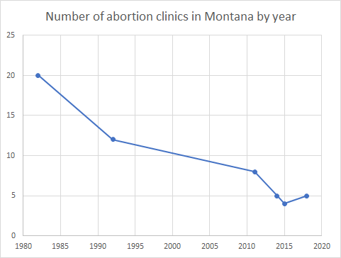 Number of abortion clinics in Montana by year. Data is from articles linked at